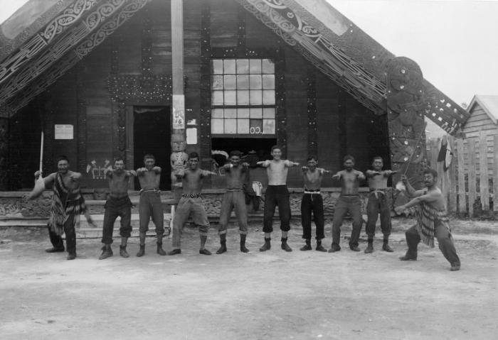 Men performing a haka on Te Papaiouru Marae, Ohinemutu, Rotorua, in about 1908. The building behind the men is the meeting house Tamatekapua - this was built in 1873 and demolished in 1939. (The present nuilding of the same name on the site was opened in 1943.)